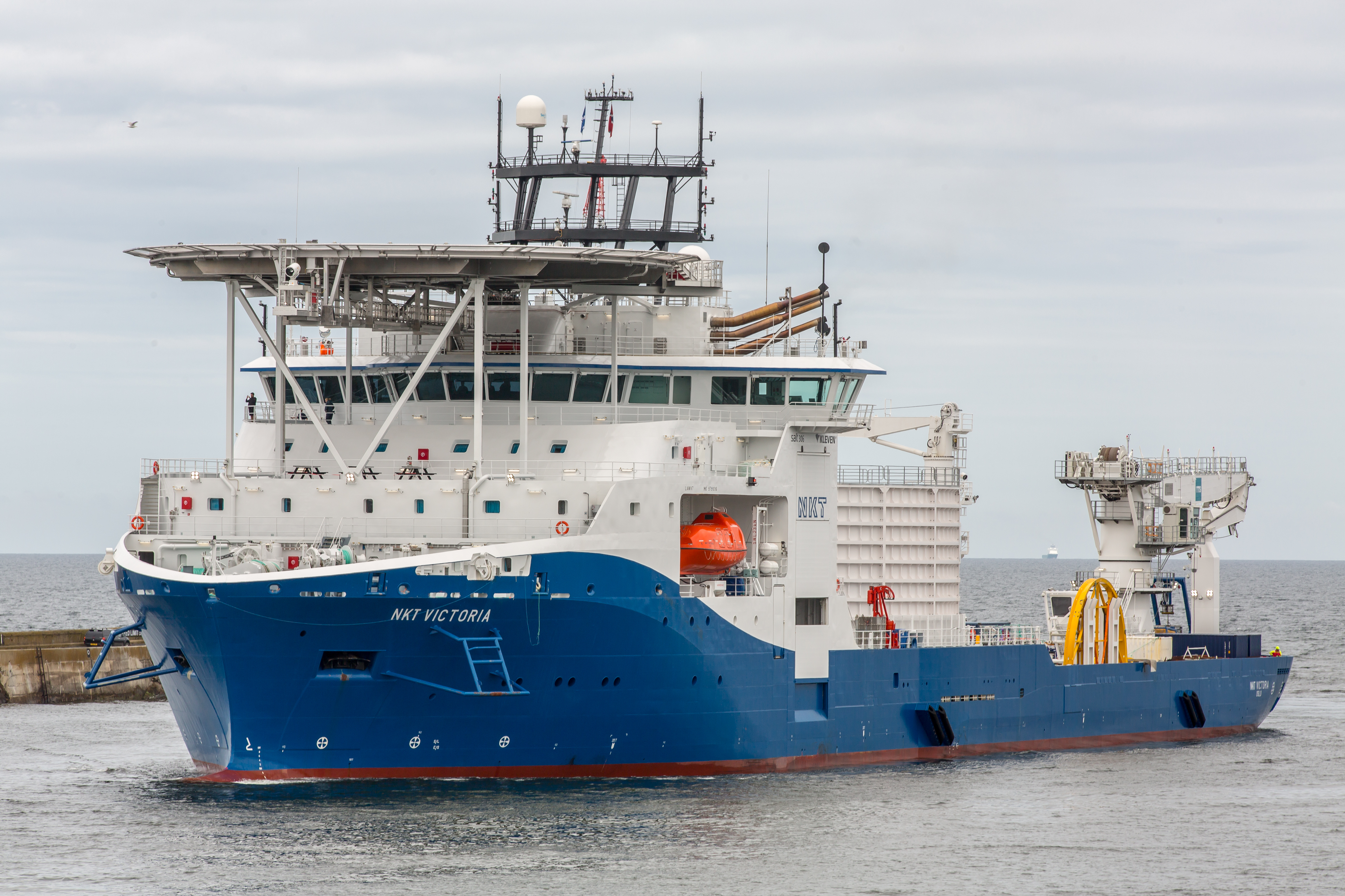 This is a 2017 build and she is a cable laying vessel. She is laying cables at an offshore wind farm on the Moray Firth.